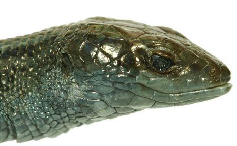 Euspondylus spinalis, (CORBIDI 07234).